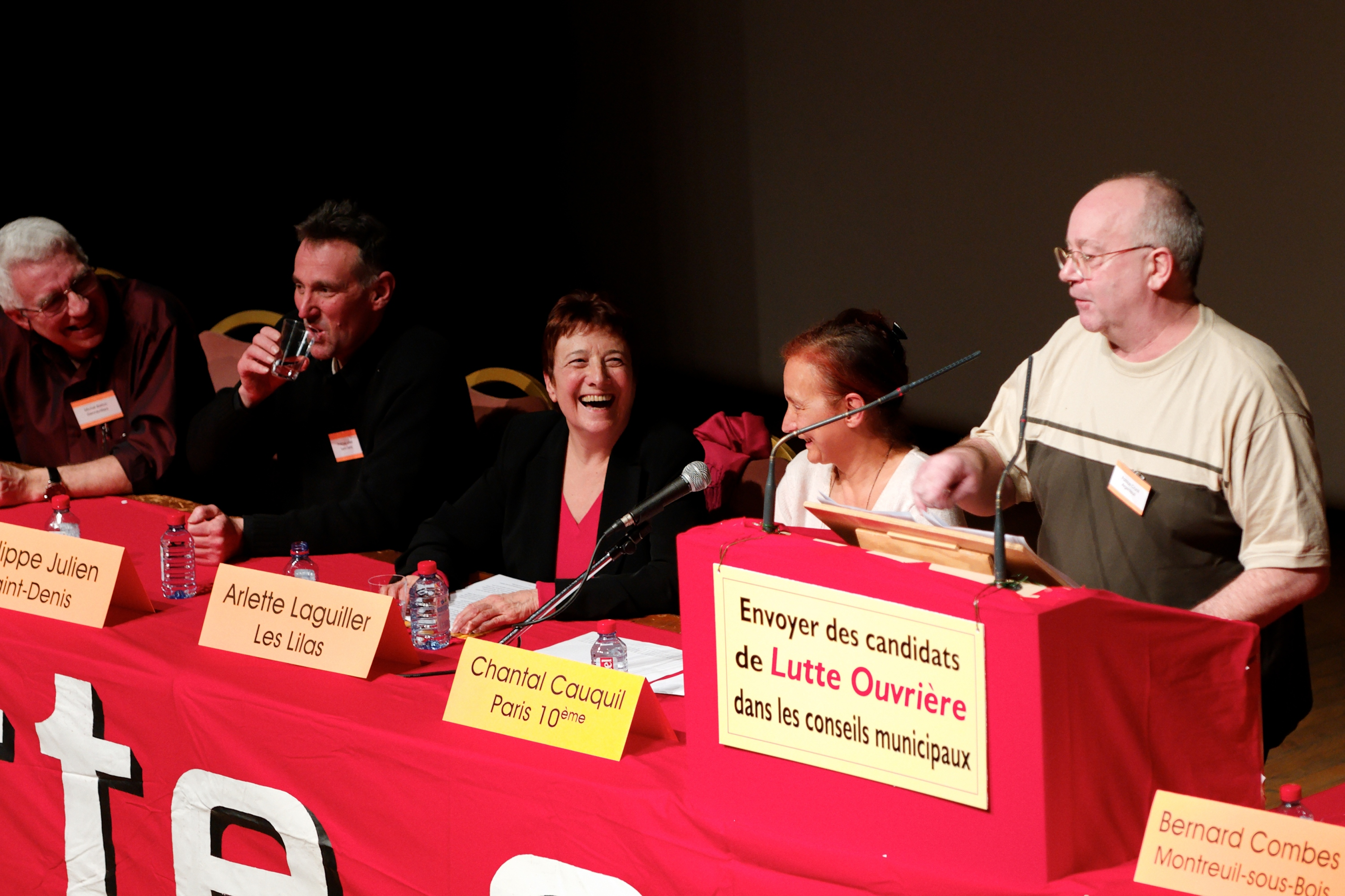 Patrice Crunil, candidate in the town elections at Argenteuil (Paris area), speaking about the Snecma. He's surrounded by other candidates to the town elections in the Paris area: from left to right, Philippe Julien, Arlette Laguiller and Chantal Cauquil. Rally organized by Workers' Struggle (Lutte Ouvrière) on February 29, 2008 at the Maison de la Mutualité (Paris) for the 2008 town elections.